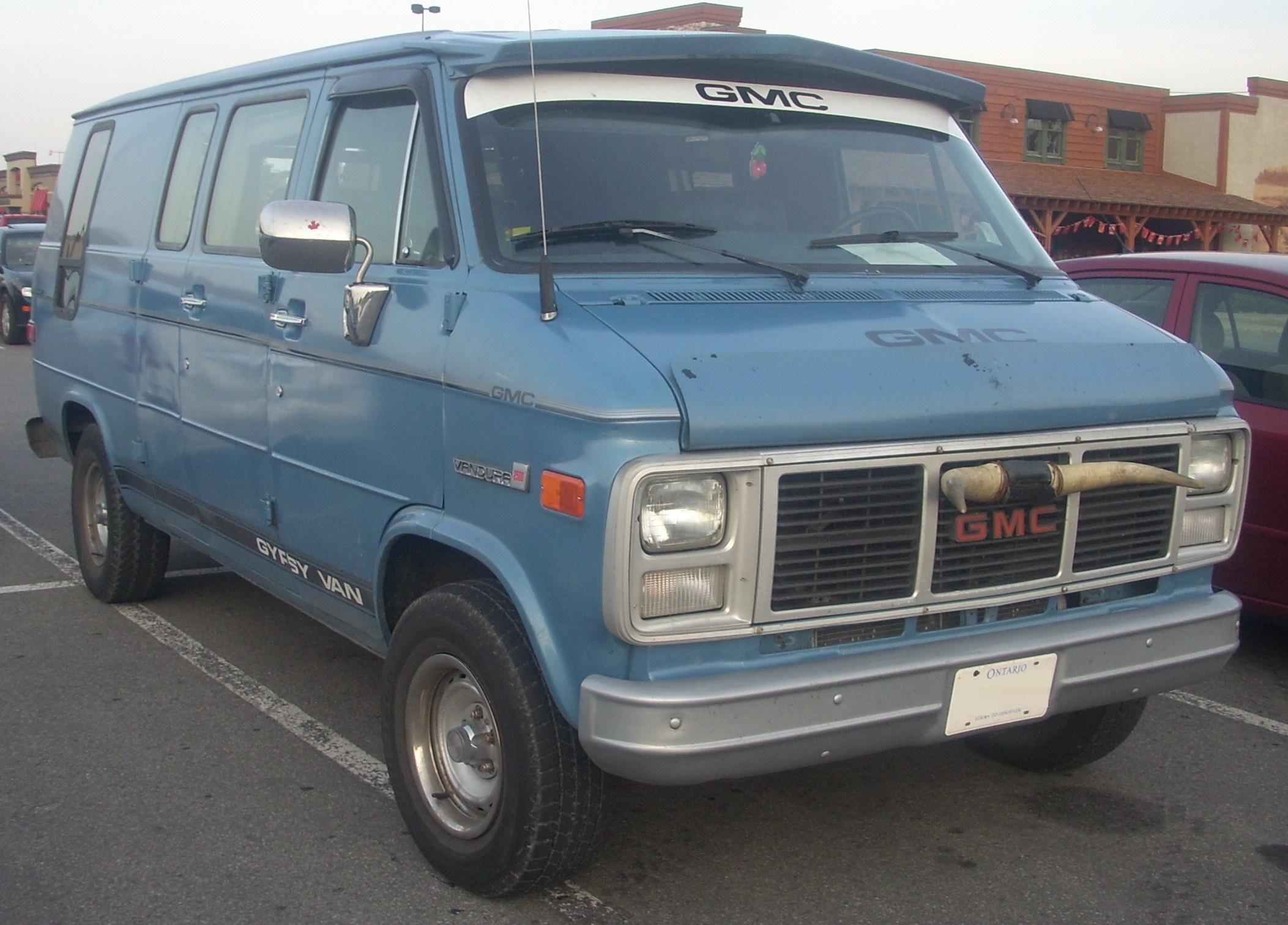 1985-1991 GMC Vandura photographed in Kirkland, Quebec, Canada.